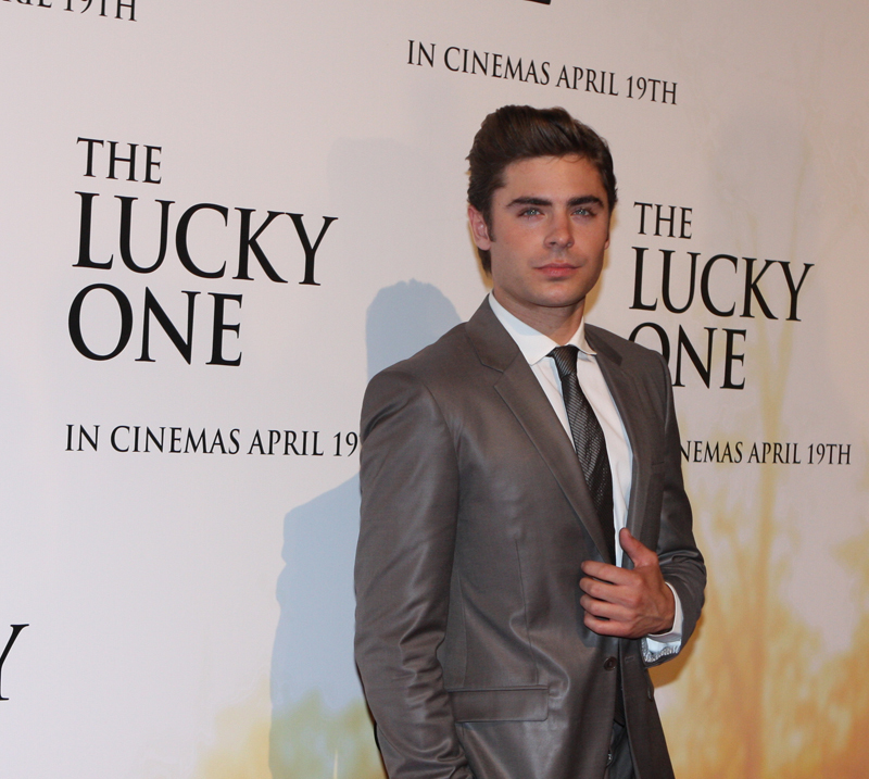 The Lucky One World Premiere At Bondi Juction, Sydney, Australia